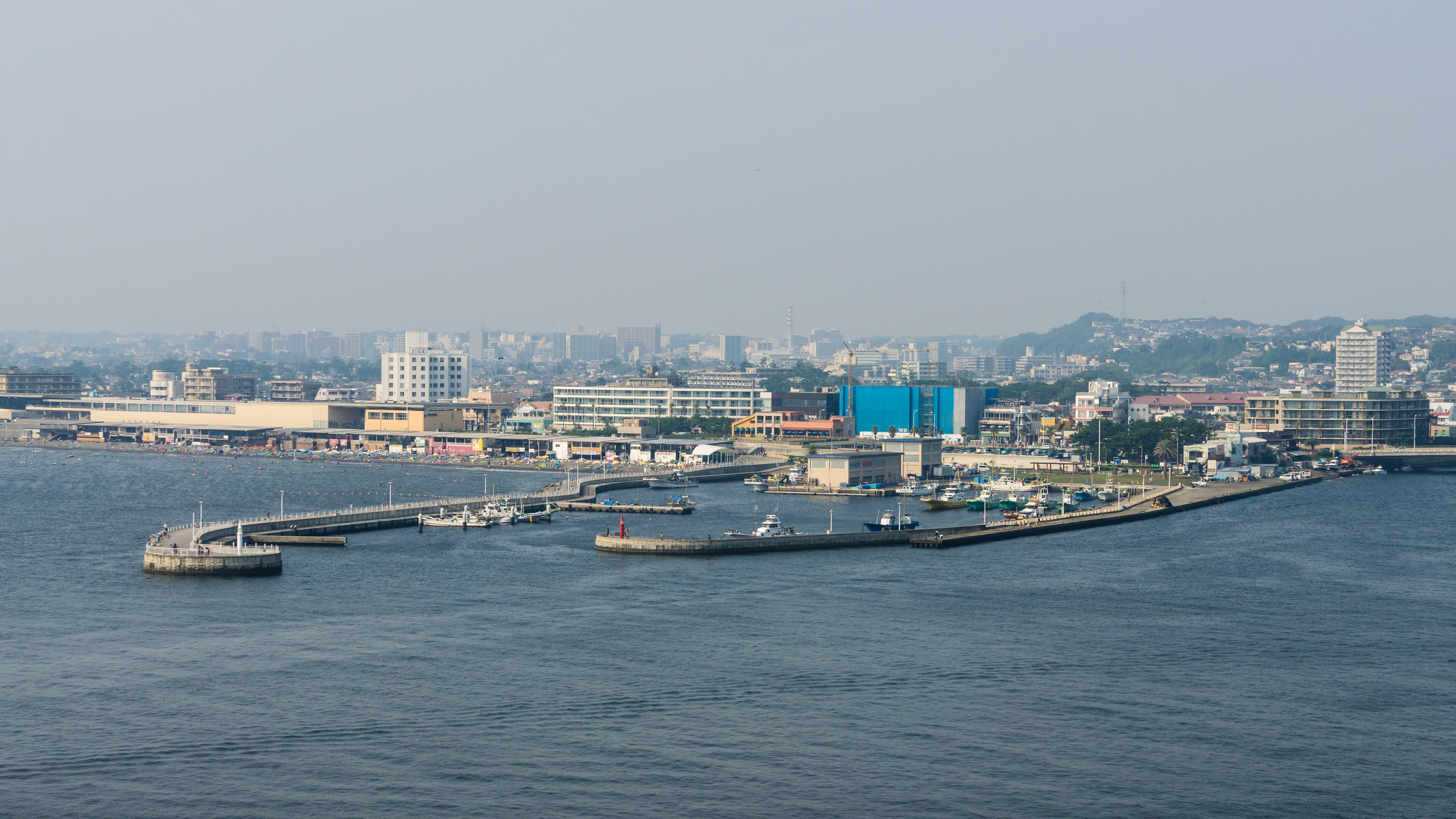 A harbor and Katase Beach of Fujisawa, Kanagawa as seen from Enoshima Island